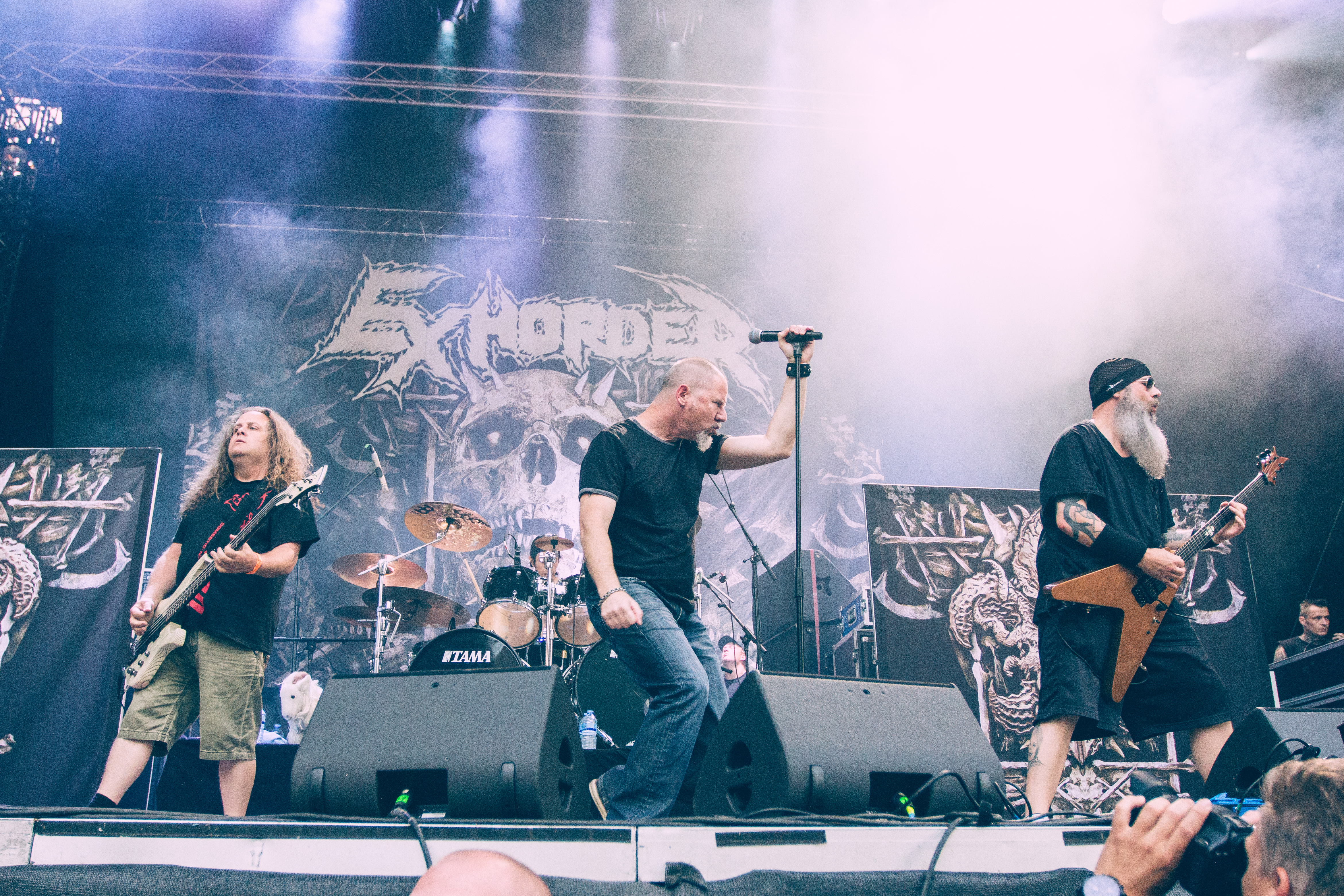 Jason VieBrooks (Bass Guitar), Sasha Horn (Drums), Kyle Thomas (Vocals), Vinnie La Bella (Guitar) of US thrash metal group Exhorder at Turock Open Air (2018), Turock Viehofer Platz, Essen (DEU) /// leokreissig.de for Wikimedia Commons